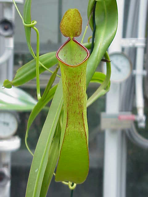 Species: Nepenthes reinwardtiana Family: Nepenthaceae Image No. 2